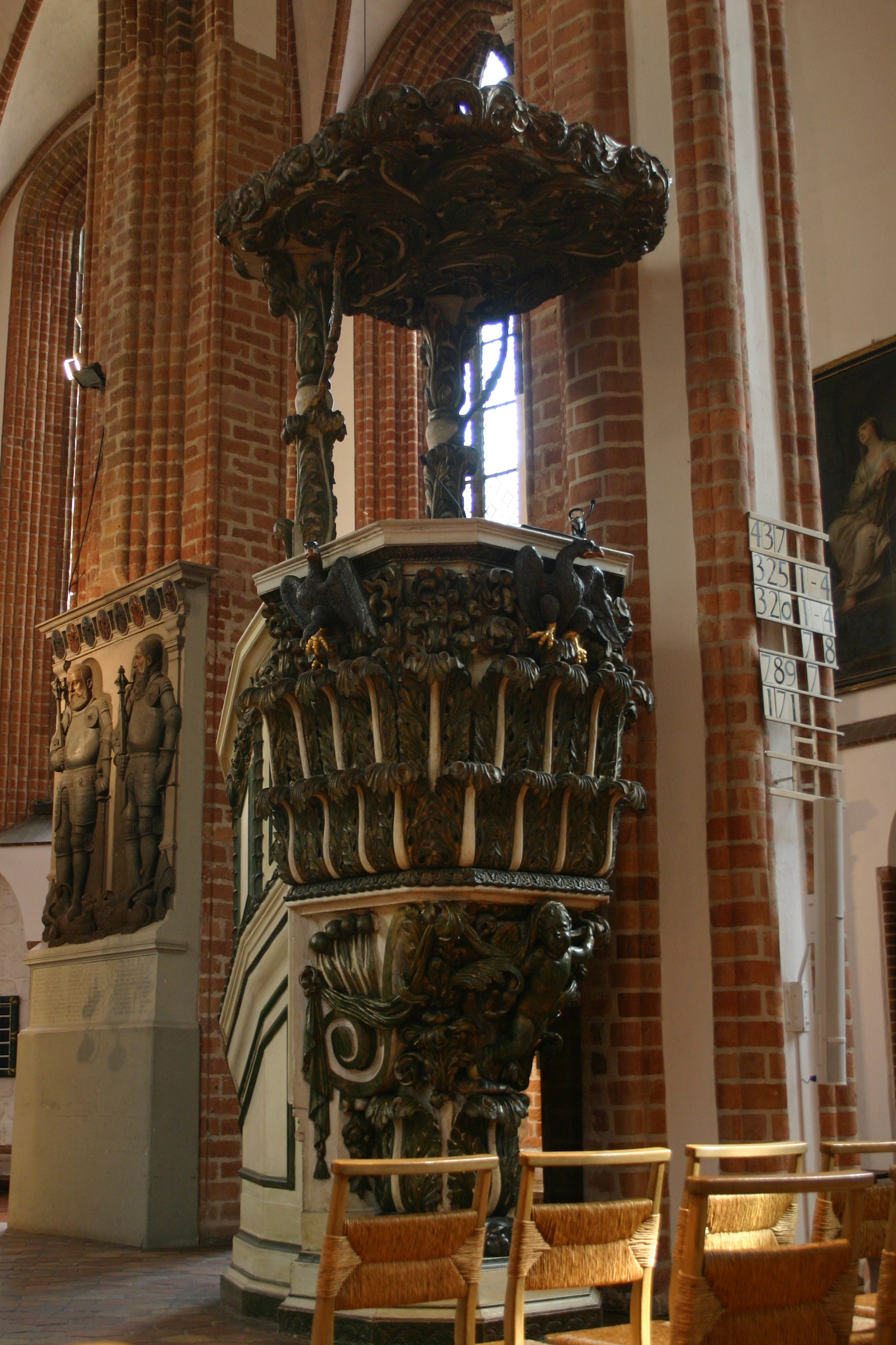 Pulpits of St. Nicholas in Berlin-Spandau